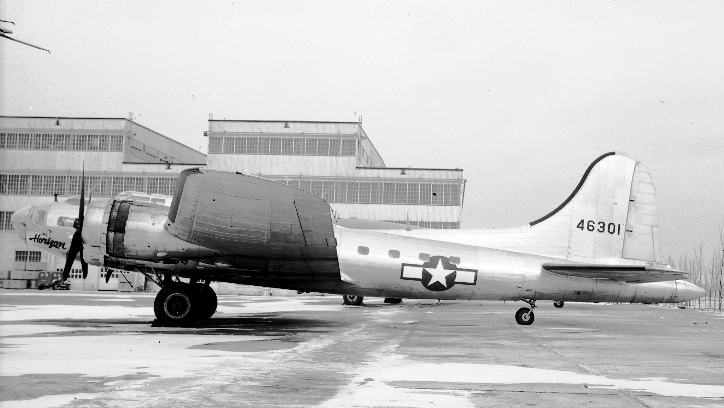 A rare Cargo modification based on the XC-108. This is CB-17G-50-DL, 44-6301, at Patterson Field, Ohio on January 1, 1946.